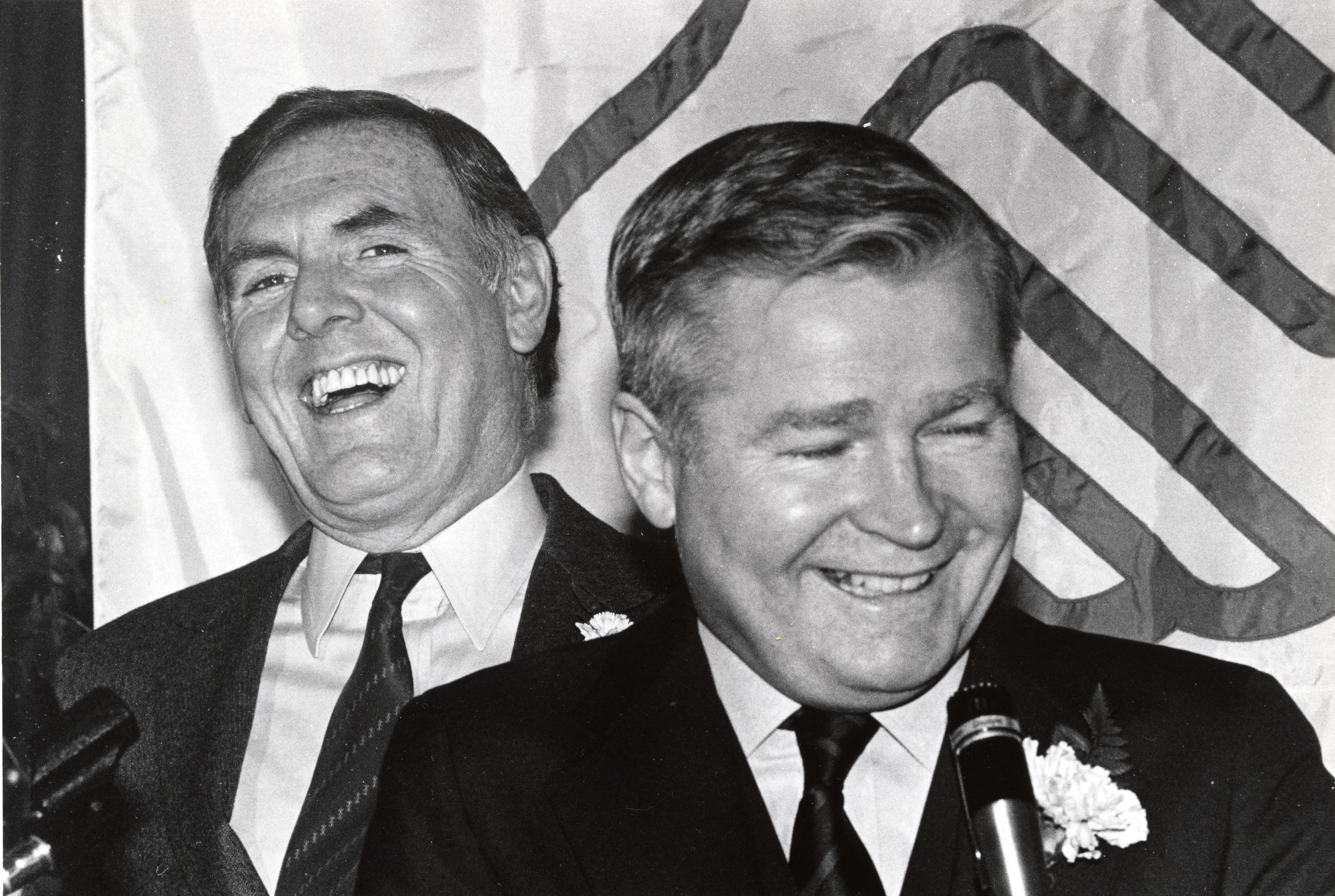 Title: Mayor Raymond L. Flynn and Senate President William M. Bulger Creator: Mayor's Office - City Photographer Date: circa 1984-1987 Source: Mayor Raymond L. Flynn records, Collection #0246.001 File name: RF_0284 Citation: Mayor Raymond L. Flynn records, Collection #0246.001, City of Boston Archives, Boston